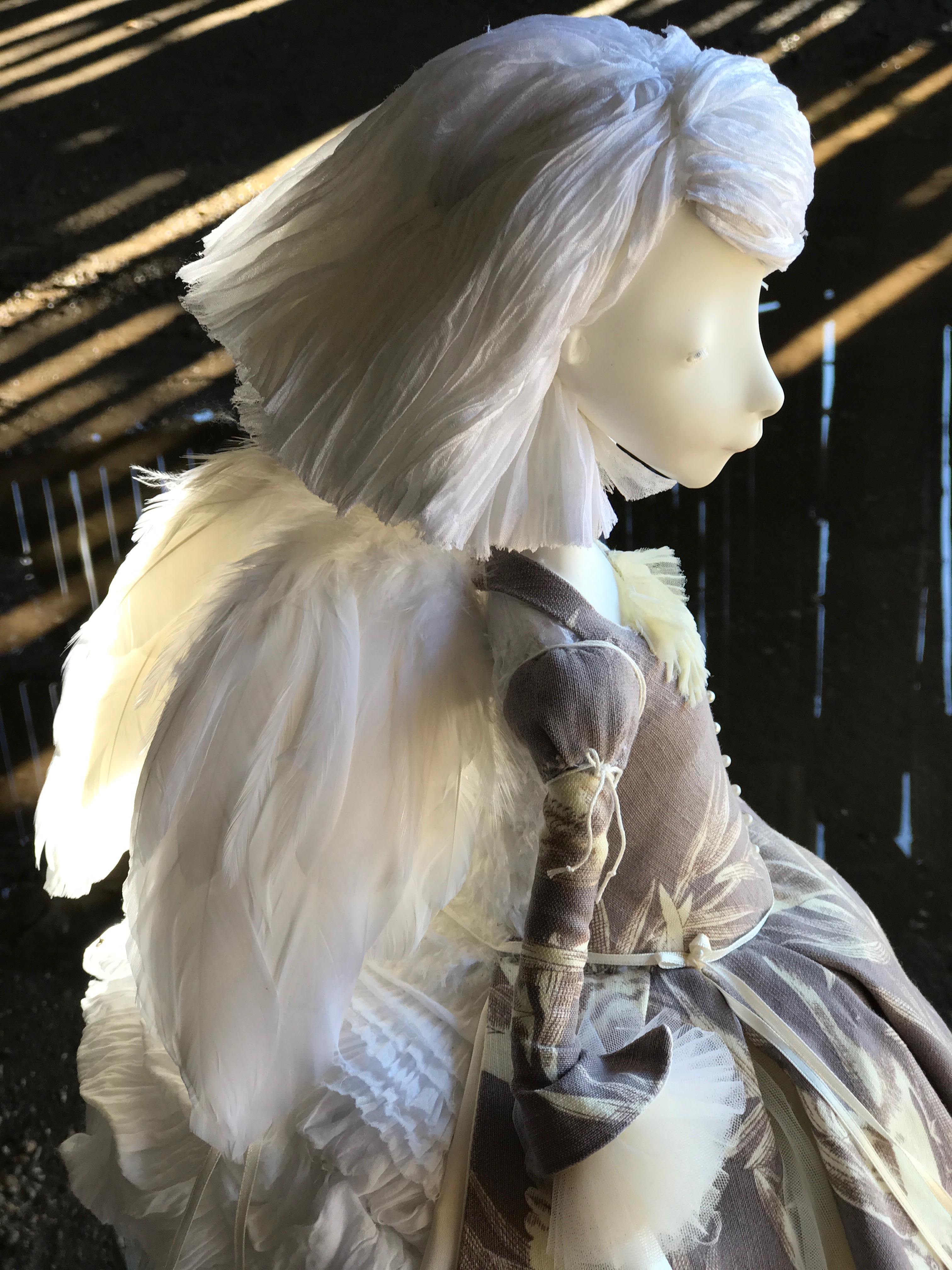 INTRO Project,exhibited in Moscow,Gostiniy Dvor 2017